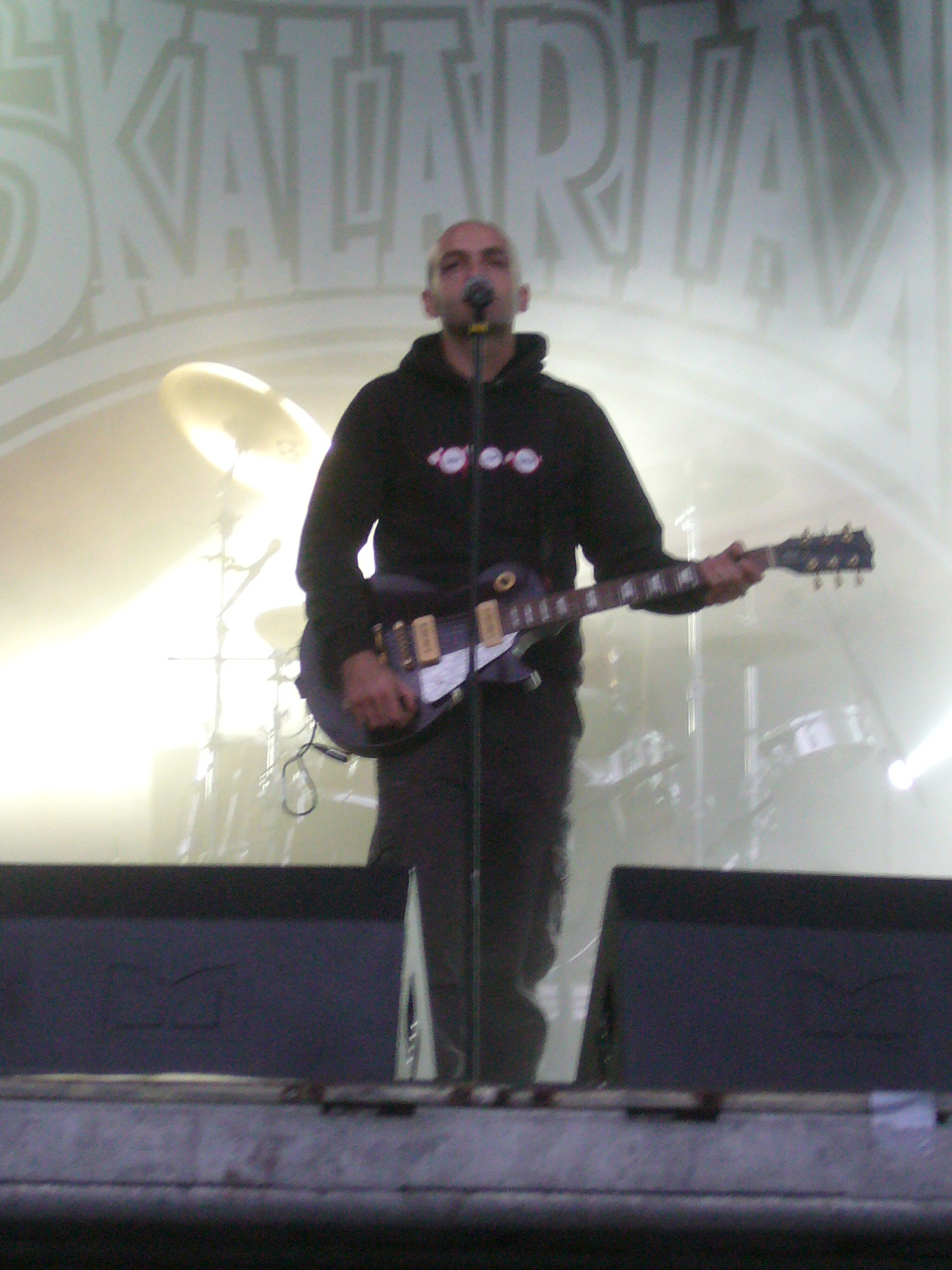 Picture of Skalariak singer Juantxo Skalari